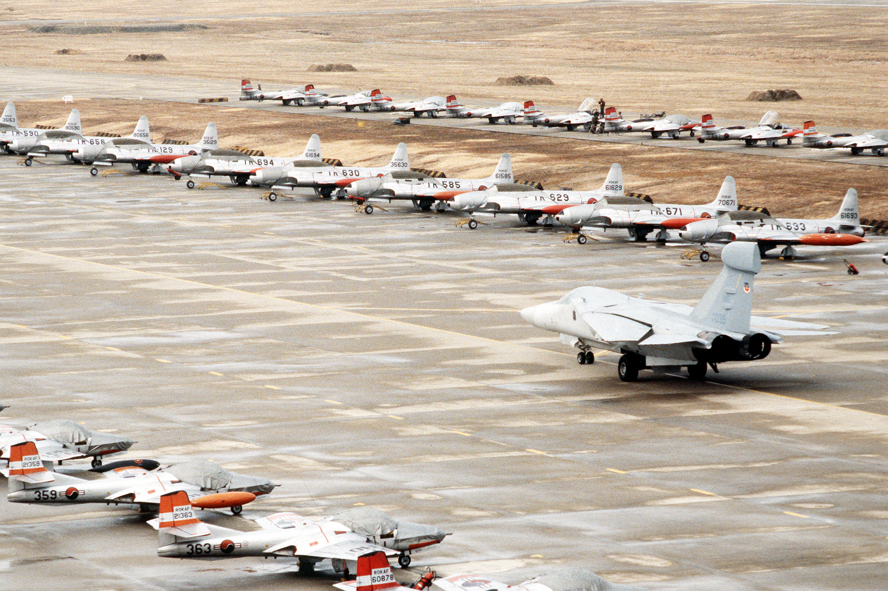 A U.S. Air Force General Dynamics EF-111A Raven (s/n 66-0039) from the 366th Tactical Fighter Wing taxis on the flight line between parked South Korean air force Cessna T-37 Tweet and Lockheed T-33A Shooting Star training aircraft during exercise "Team Spirit '85" on 1 March 1985.